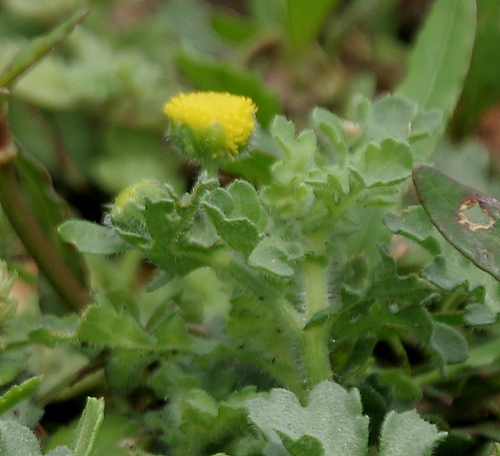 Madras Carpet Grangea maderaspatana in Hyderabad , India.